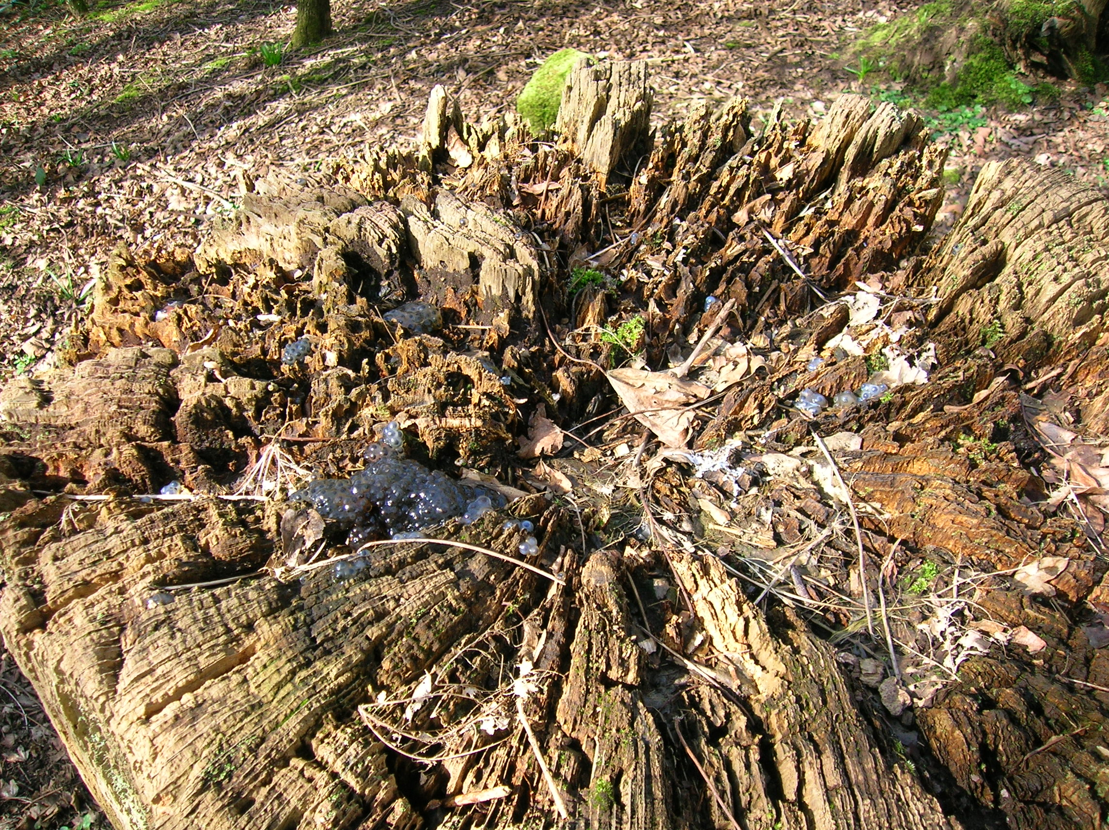 A plucking post (bird of prey feeding site) with frog remains. Irvine, North Ayrshire, Scotland.